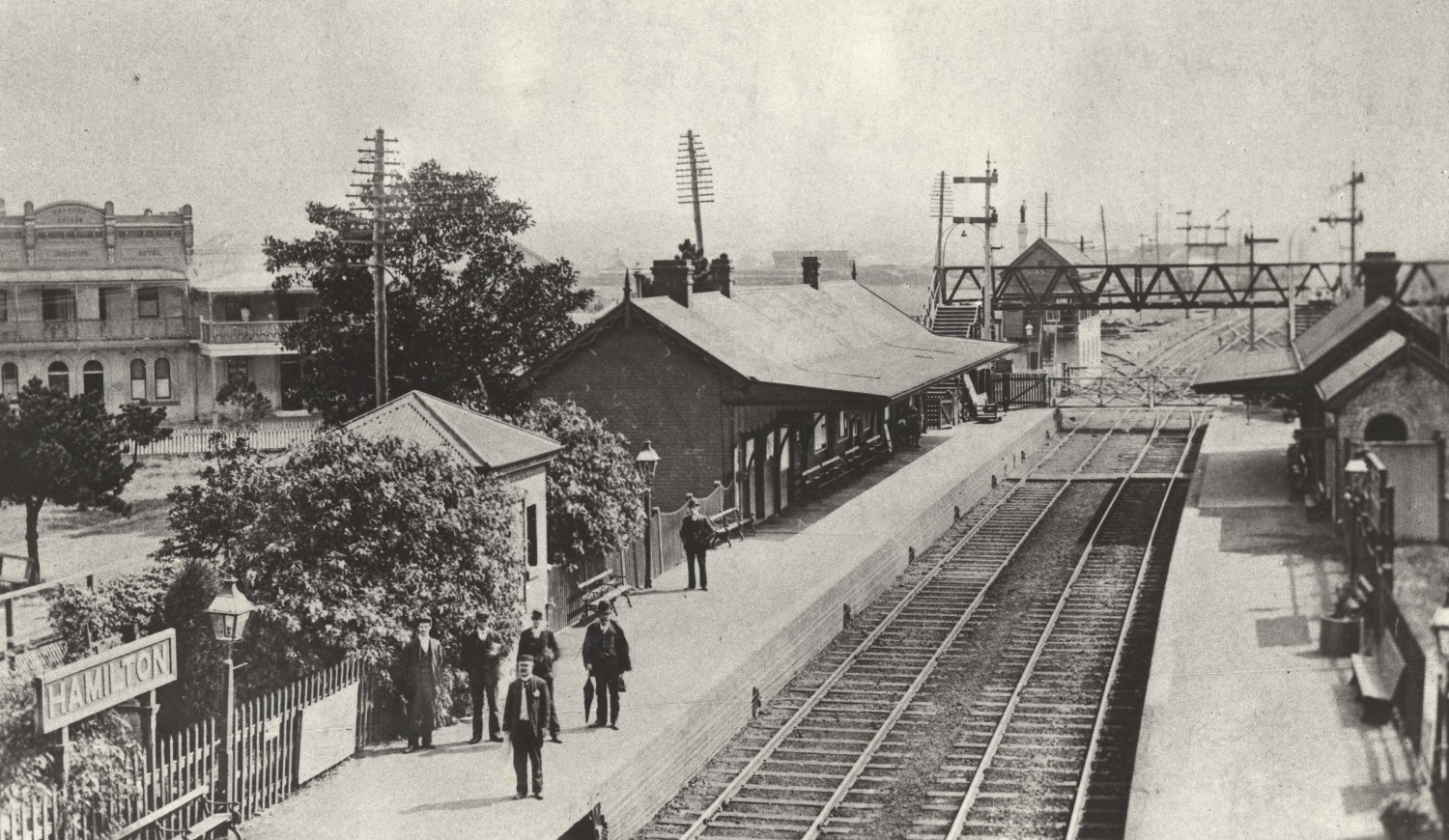 Hamilton Railway Station Dated: 12 April 1906 Digital ID: 17420_a014_a014000788 Rights: This image is part of our "Moments in Time" blog series where we ask you to help us date the photos or identify the location where the photo was taken. If you can help with this image please head over to the post at our Archives Outside blog. We have included the larger version here on Flickr to help show more detail. We'd love to hear from you if you use our photos. Many other photos in our collection are available to view and browse on our website using Photo Investigator.